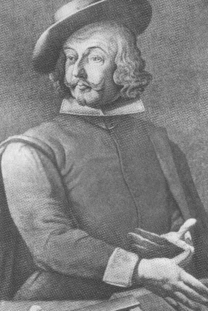 Jakob Hutter, founder of the Hutterer